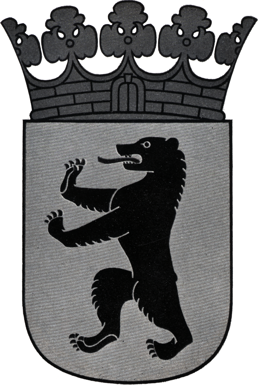 Draft of coat of arms of Berlin from 1952.